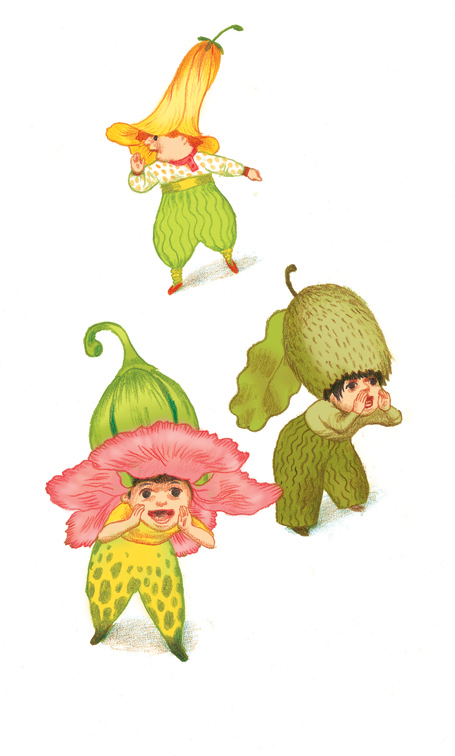 Illustration by David Polonsky